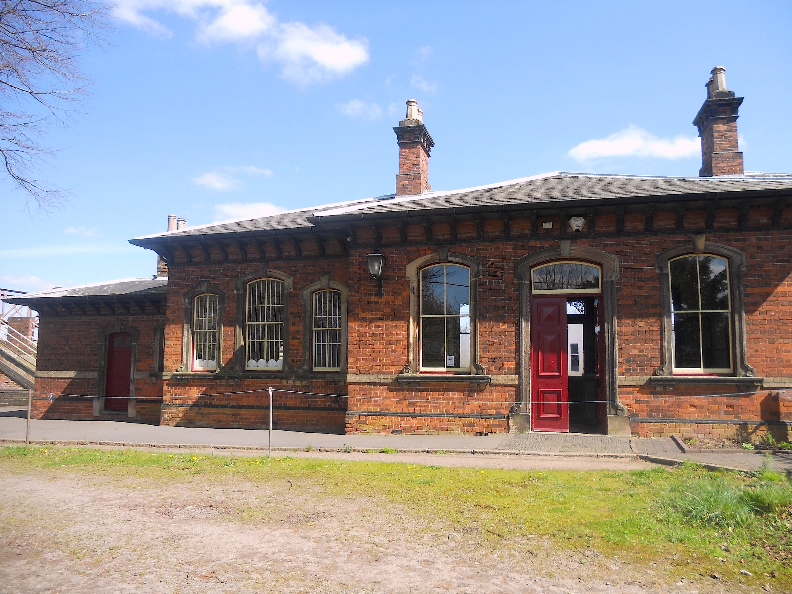 The Shackerstone Station building on the Battlefield Line Railway